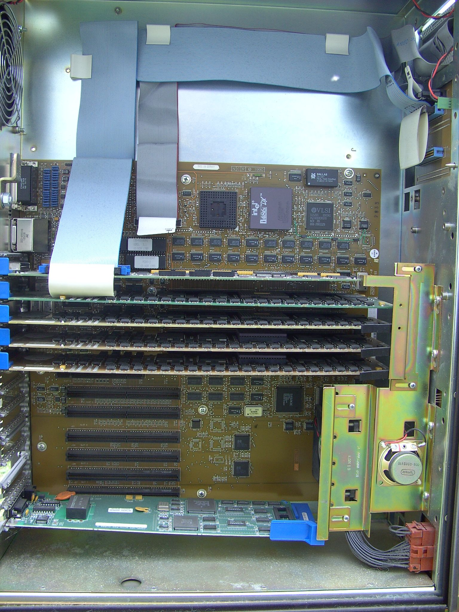 AT&T_Computer_Systems - NCR Model 3000 Class 3434 80486 computer.